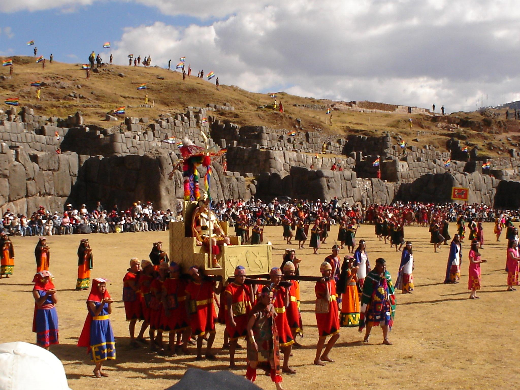 Inti Raymi (Festival of the Sun) at Sacsayhuaman,Cusco